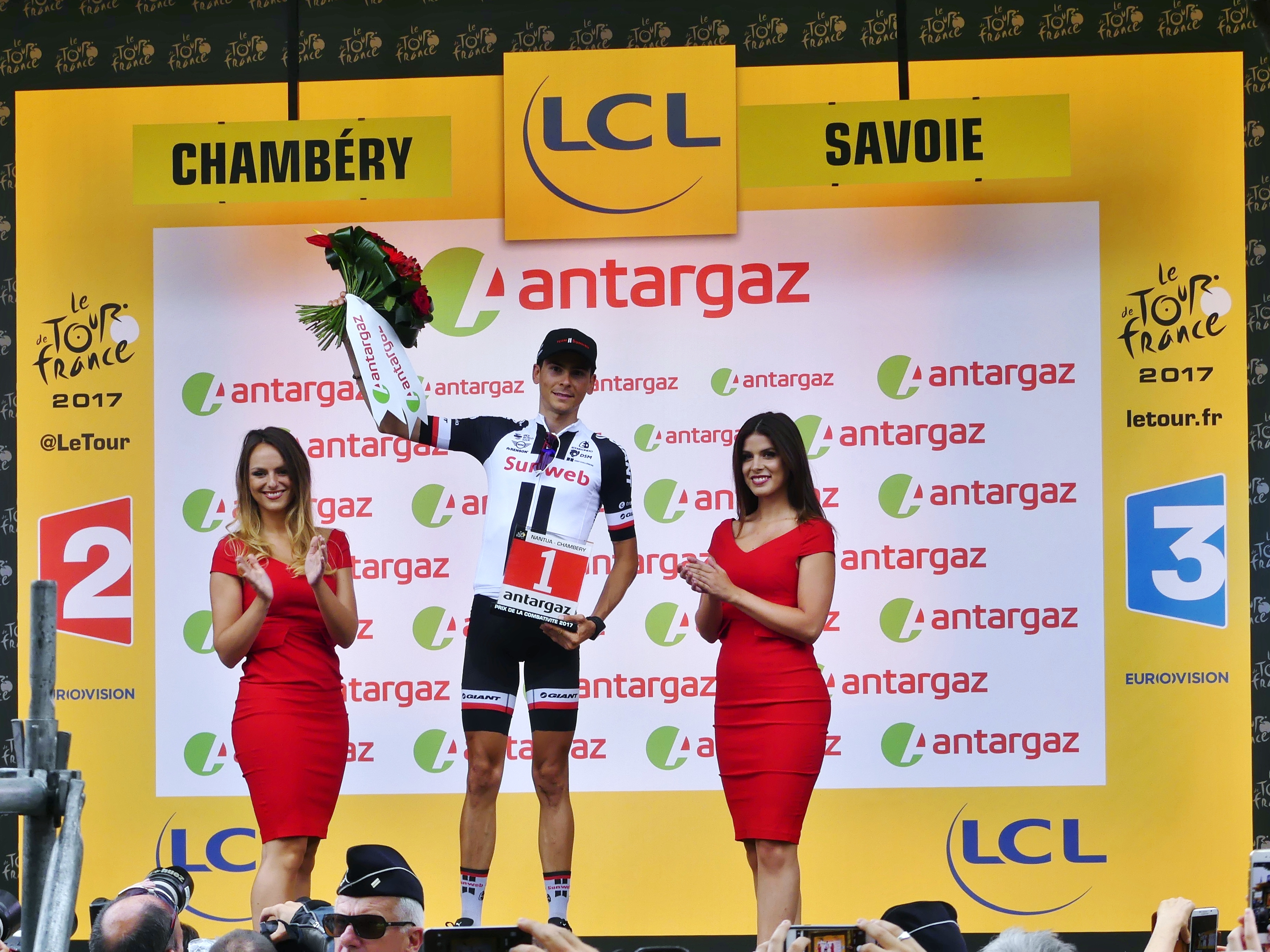 Sight of Warren Barguil wearing the jersey of the most aggressive rider (Combativity award), on the podium at Chambéry (Savoie, France) at the end of the 9th step of Tour de France 2017.